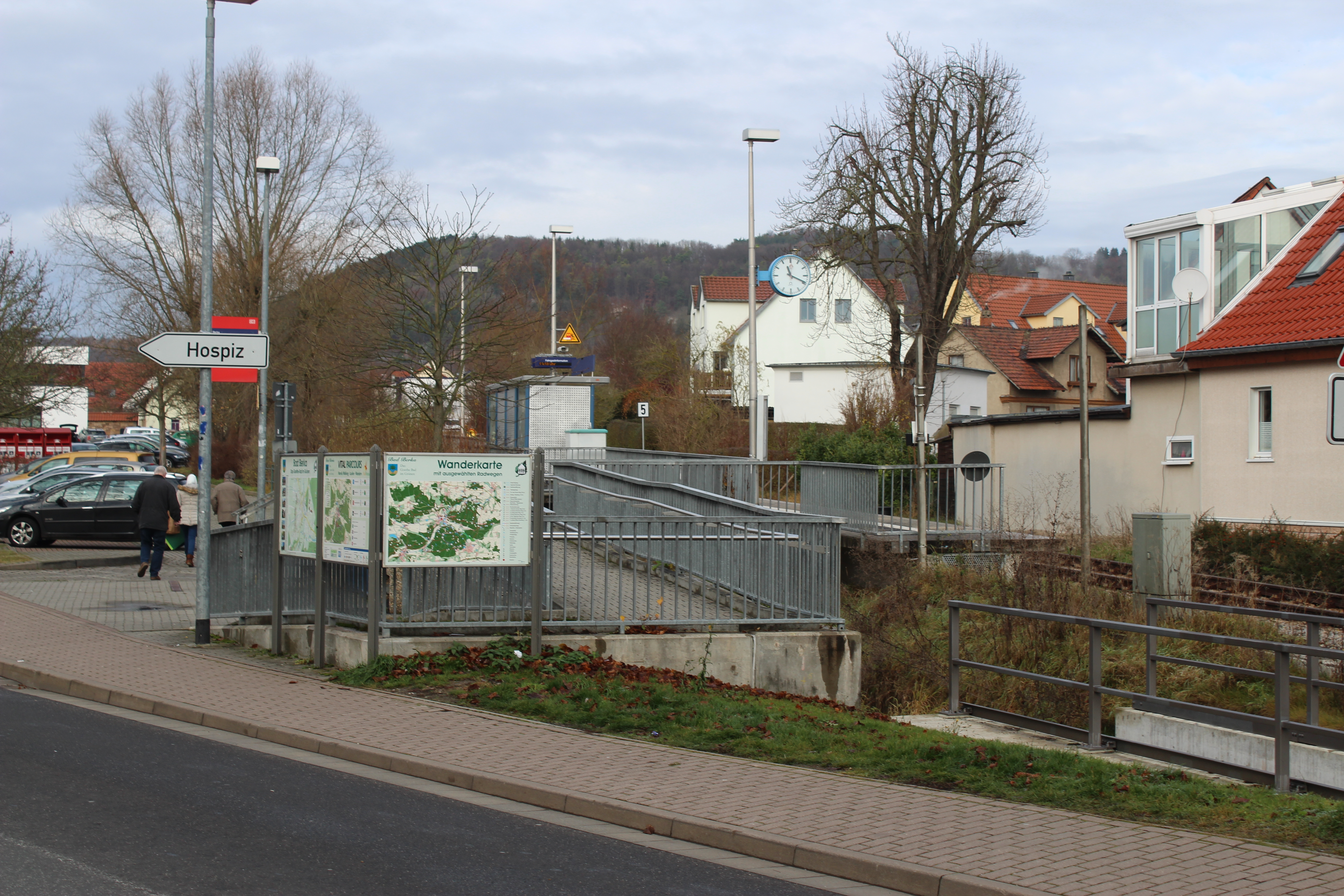 train station Bad Berka Zeughausplatz